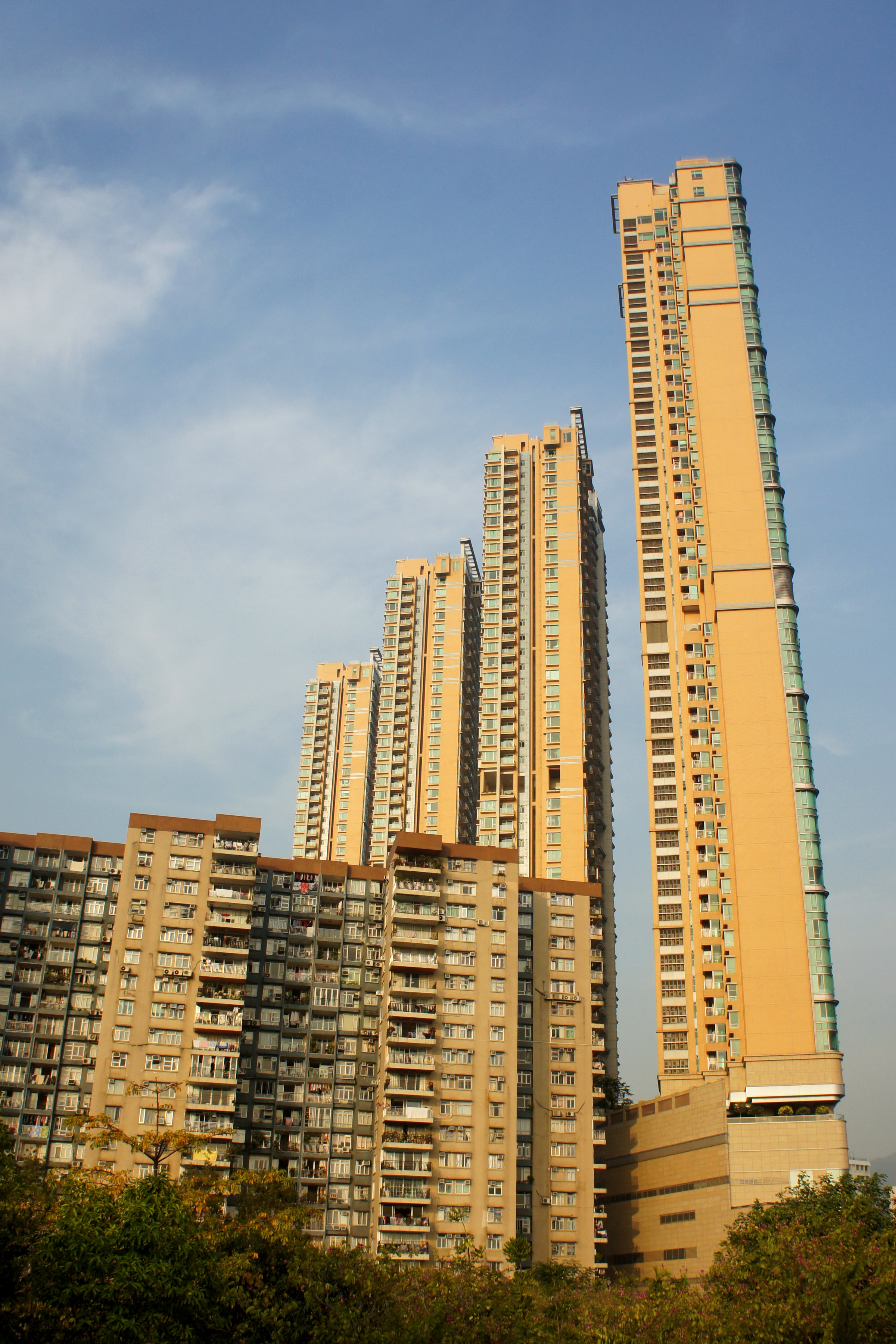 Manhattan Hill, Lai Chi Kok, Kowloon, Hong Kong. (Right)